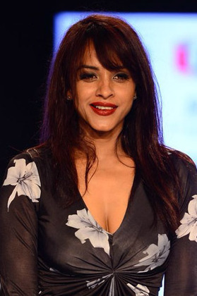 Manasi Scott walks the ramp at the Bombay Times Fashion Week in 2018